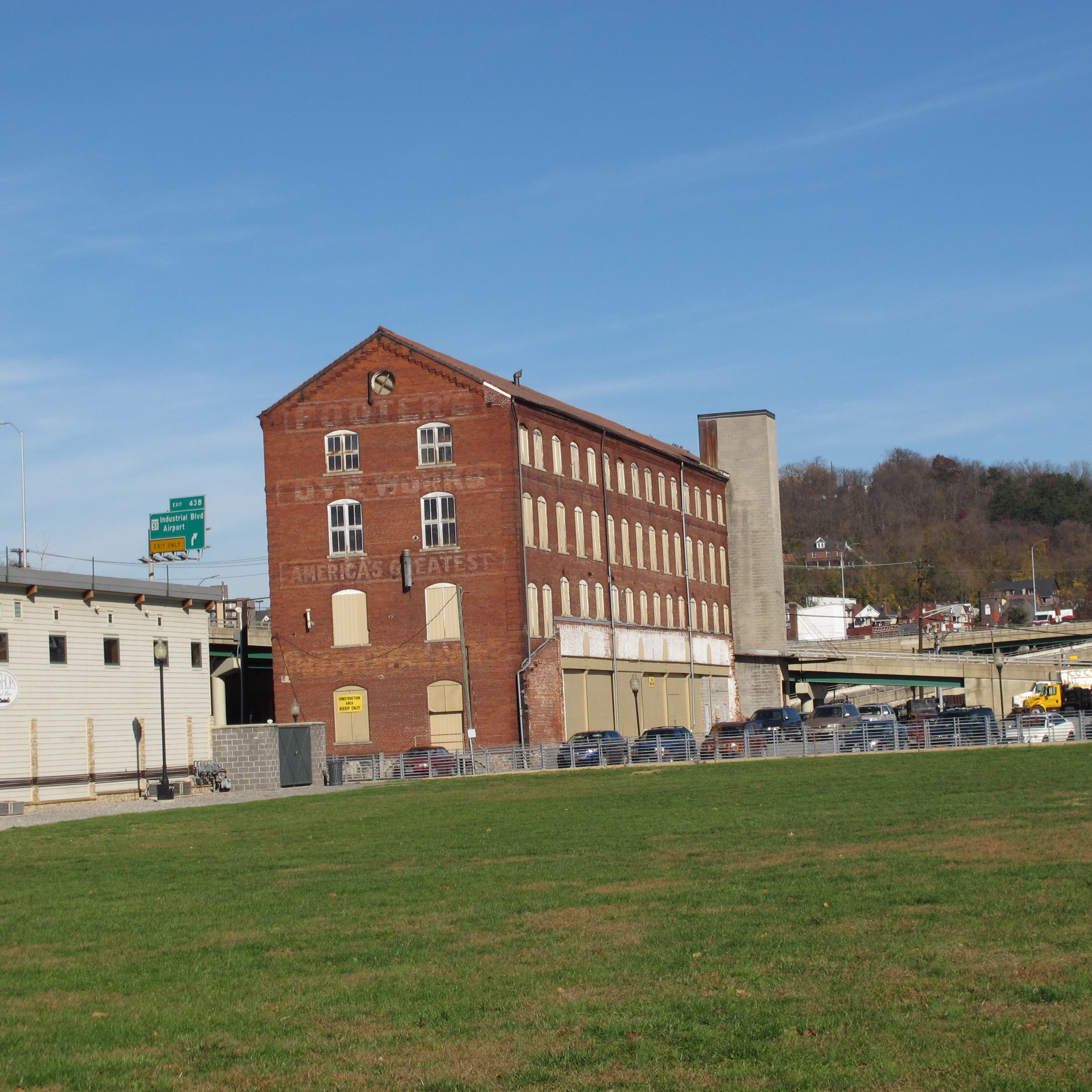 A photograph of the exterior of Footer's Dye Works, a historic industrial building in Cumberland, MD, built in 1906. The site was added to the National Register of Historic Places in 2013. Photo taken by Christopher M. Stevens.